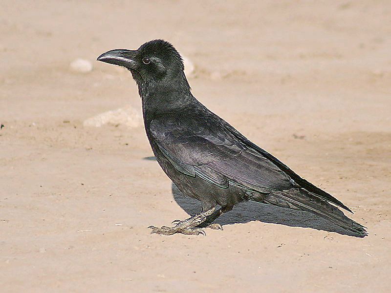 Indian Jungle Crow Corvus culminatus at Bharatpur, Rajasthan, India.